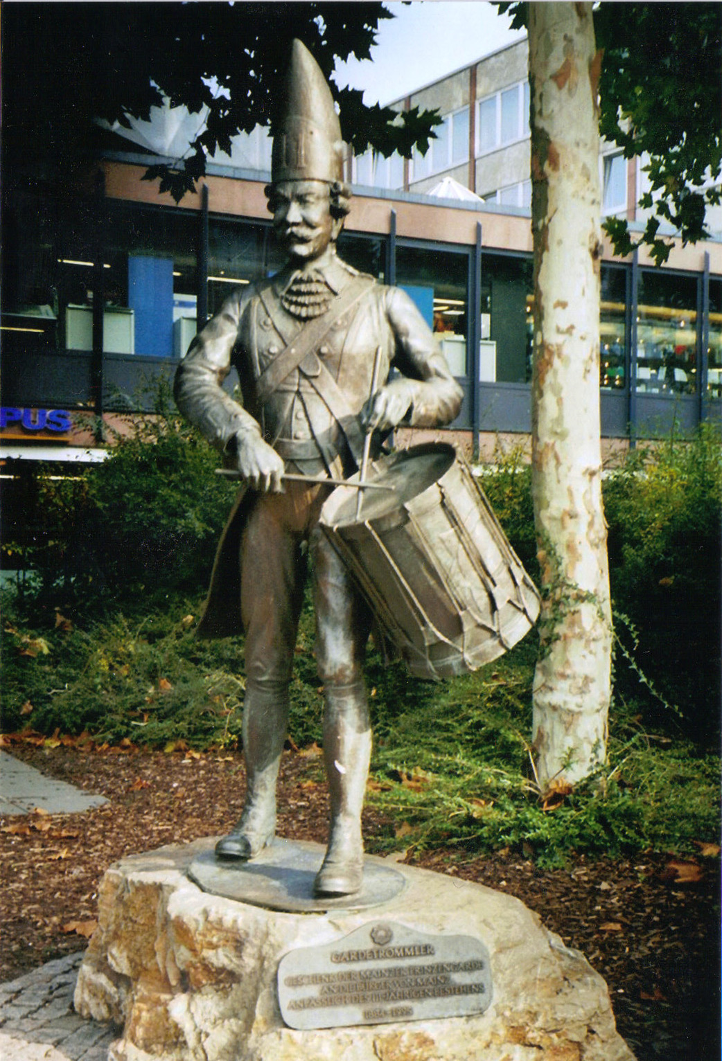 A statue of a "Mainzer Prinzengarde" member in Mainz